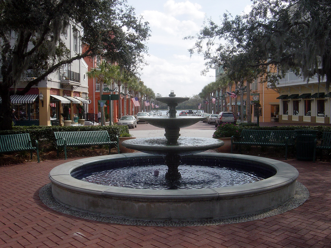 A view of downtown Market Street, Celebration, Florida: the city designed and planned by The Walt Disney Company.